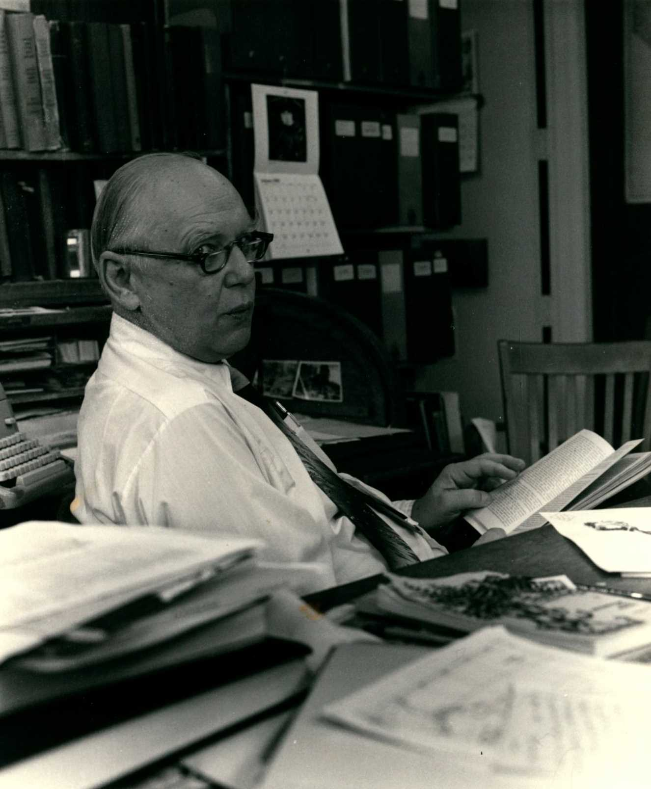 Photograph of Arthur Cronquist.